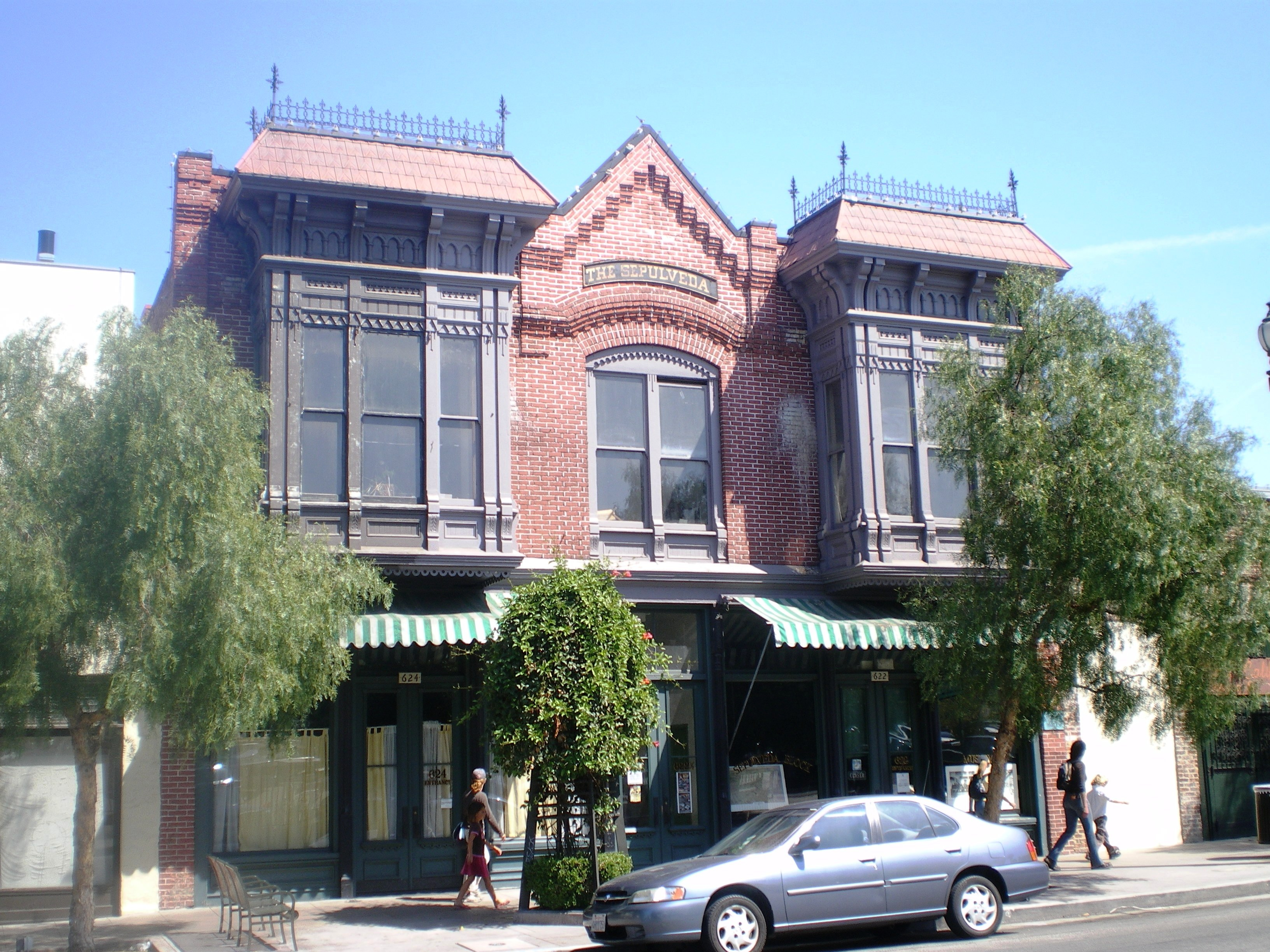 Sepulveda House, Los Angeles Plaza Historic District